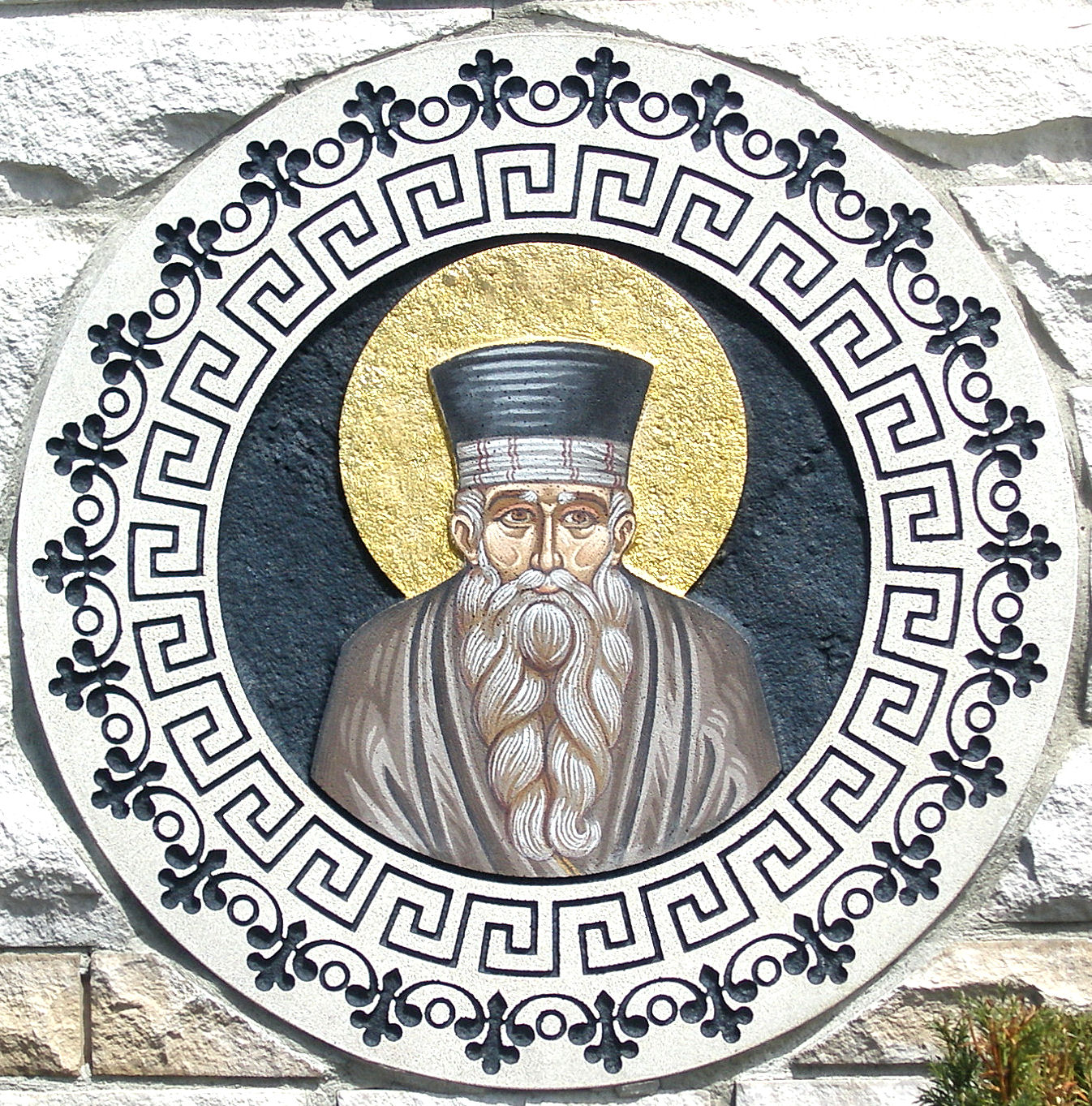 Stone icon of Saint Kosmas Aitolos, New Hieromartyr and Equal-to-the-Apostles († 1779). St Kosmas Aitolos Greek Orthodox Monastery, Bolton, Ontario, Canada.